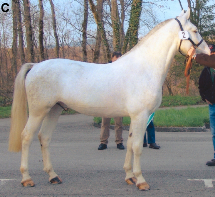 (B, C) Dominant white Franches-Montagnes stallion showing partial depigmentation as a colt and almost complete depigmentation at 4 years of age.